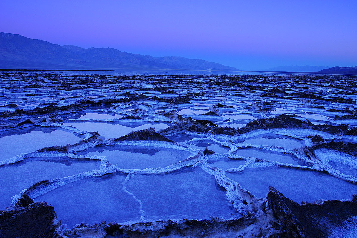 The salt lake at Badwater, Death Valley National Park, California, USA is the lowest point in North America.